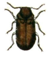 Ochina ptinoides, from Calwer's Käferbuch, Table 29, Picture 4. Taxonomy was updated to 2008, using mostly the sites Fauna Europaea and BioLib. Please contact Sarefo if the determination is wrong!